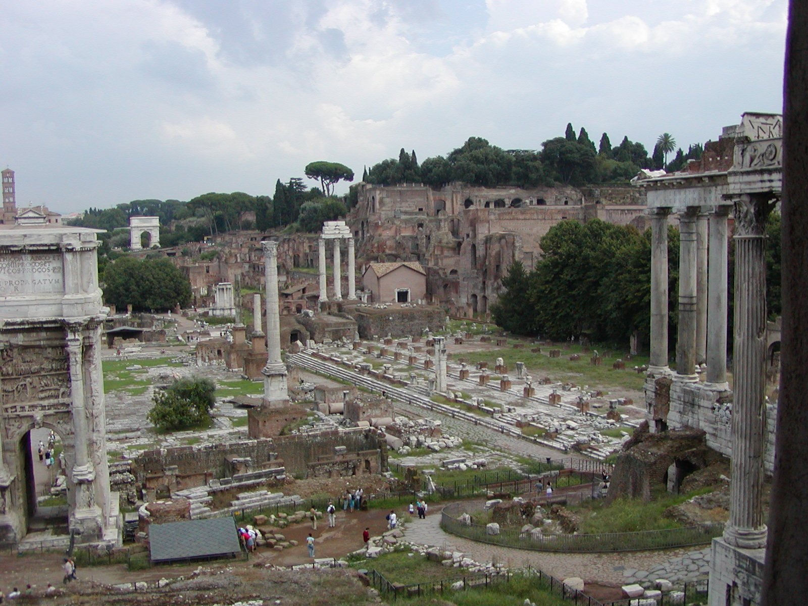 The remains of Basilica Julia at the Forum Romanum in Italy.